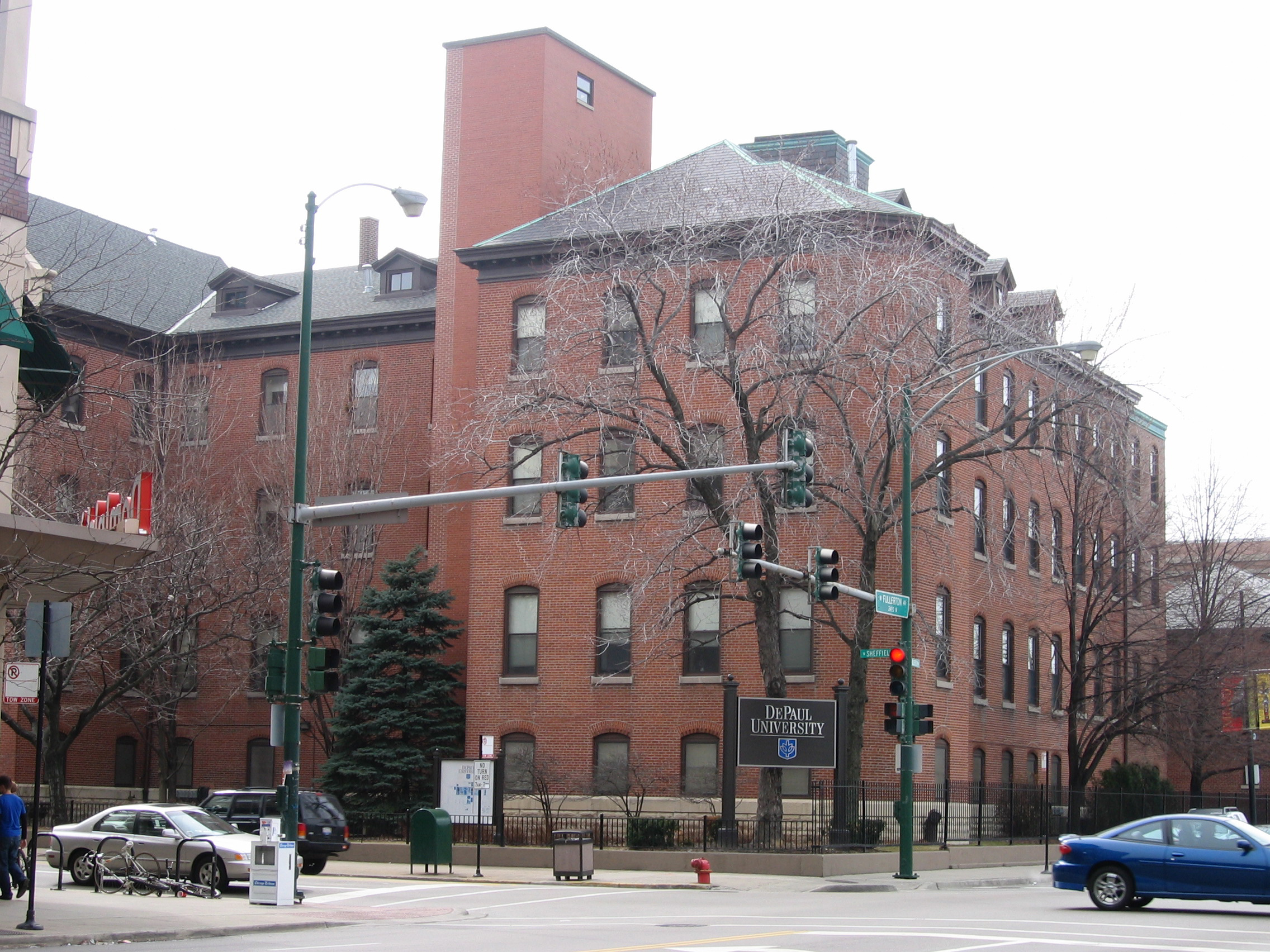 DePaul University's Lincoln Park campus.